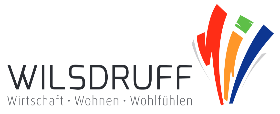 Logo of the town of Wilsdruff